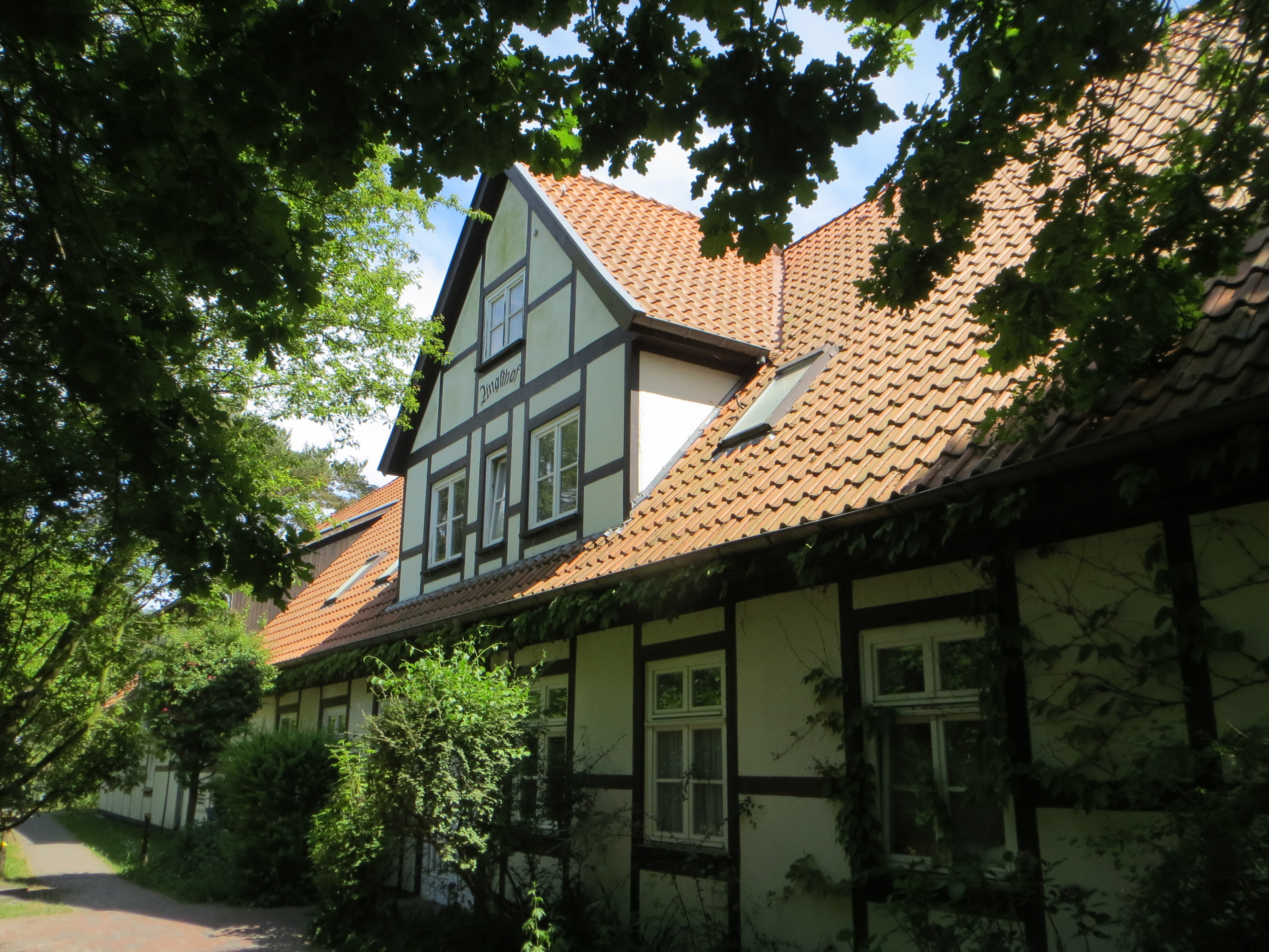 Zingsthof